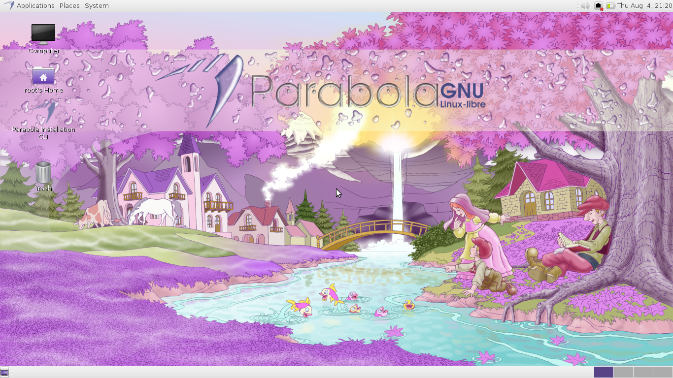 Screenshot of Parabola with MATE in live mode.